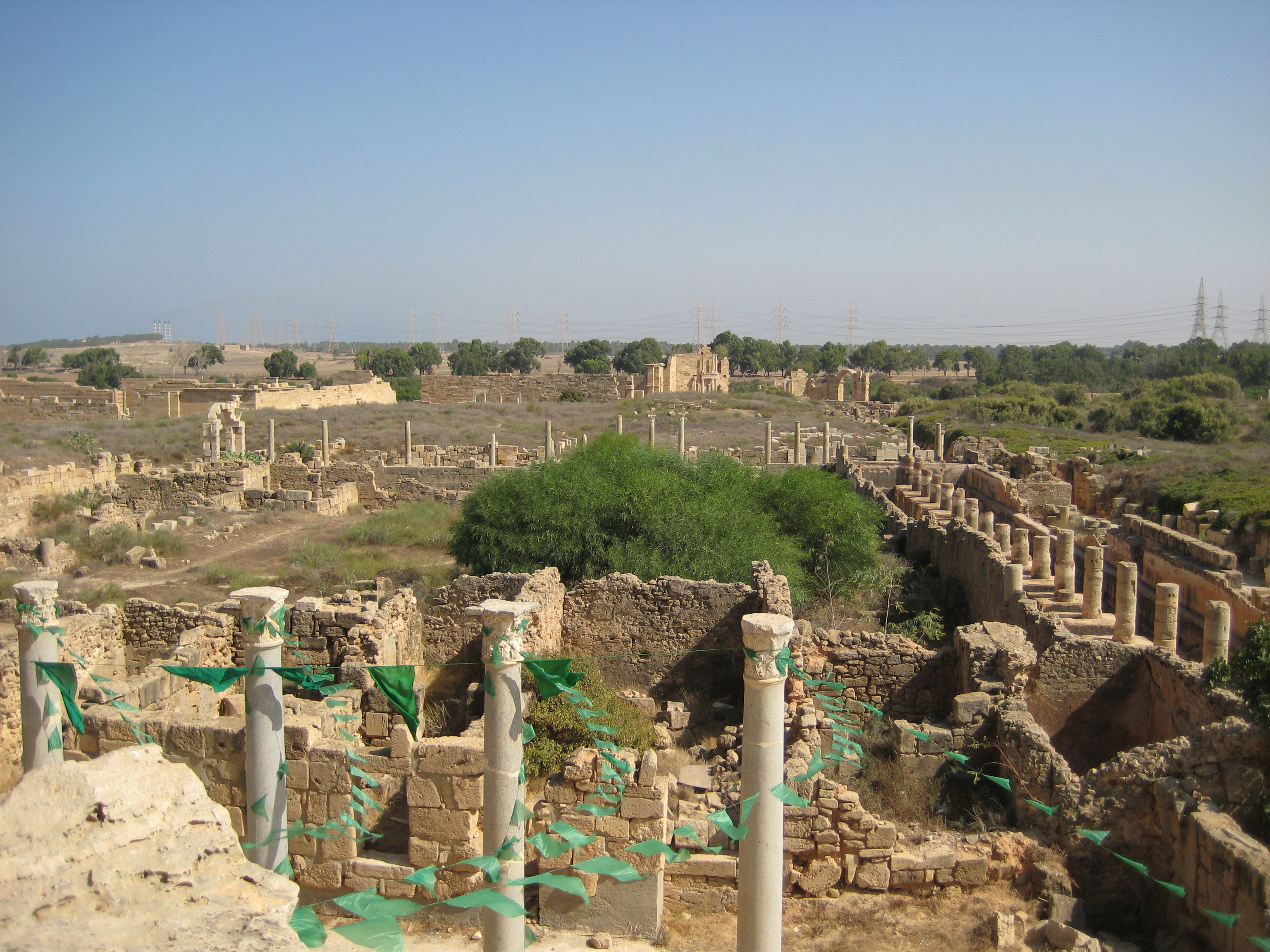 View on Leptis Magna from theater wall, Leptis Magna 2nd century A.D. (Libya)